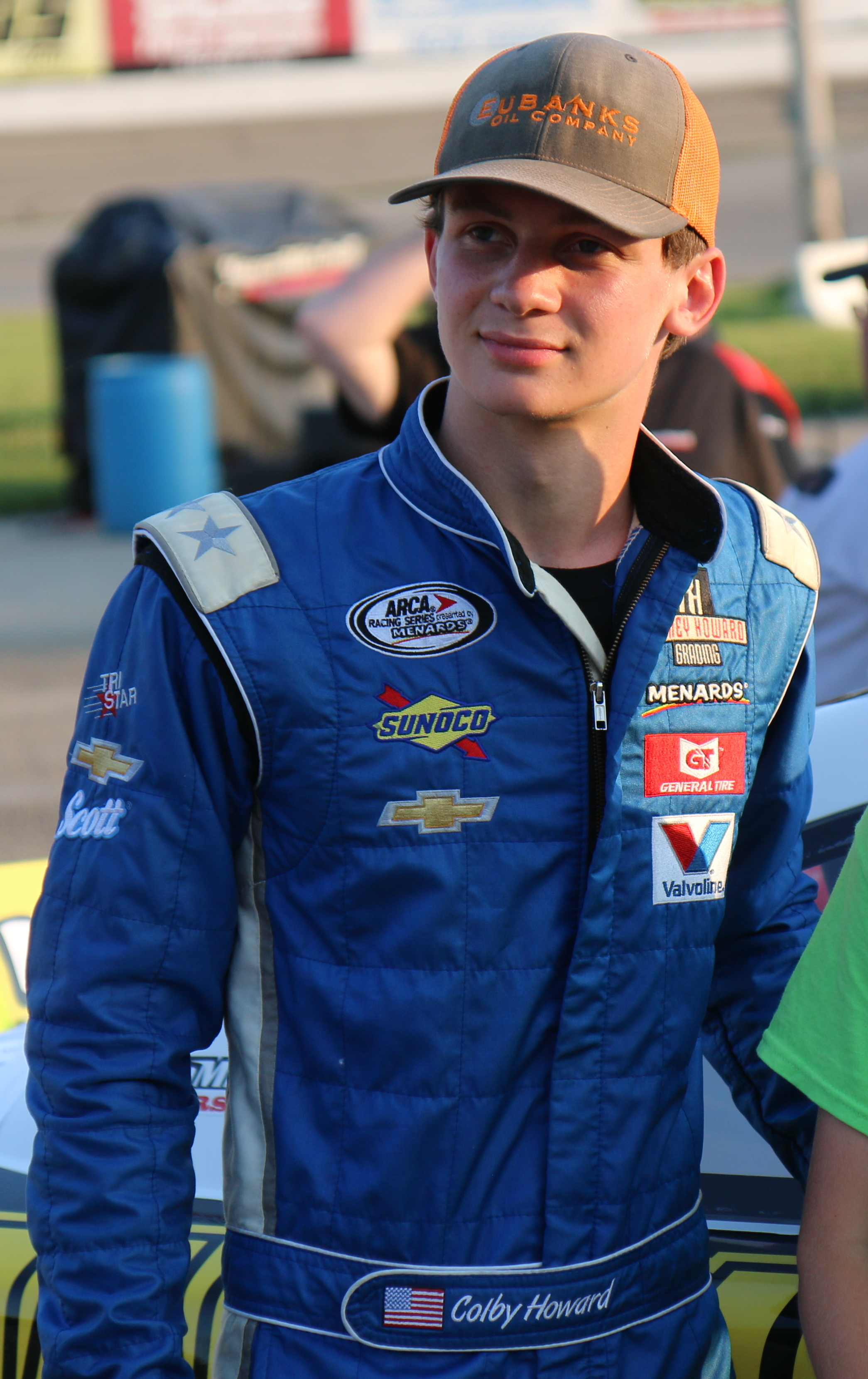 ARCA driver Colby Howard posing for a photograph at Madison International Speedway.